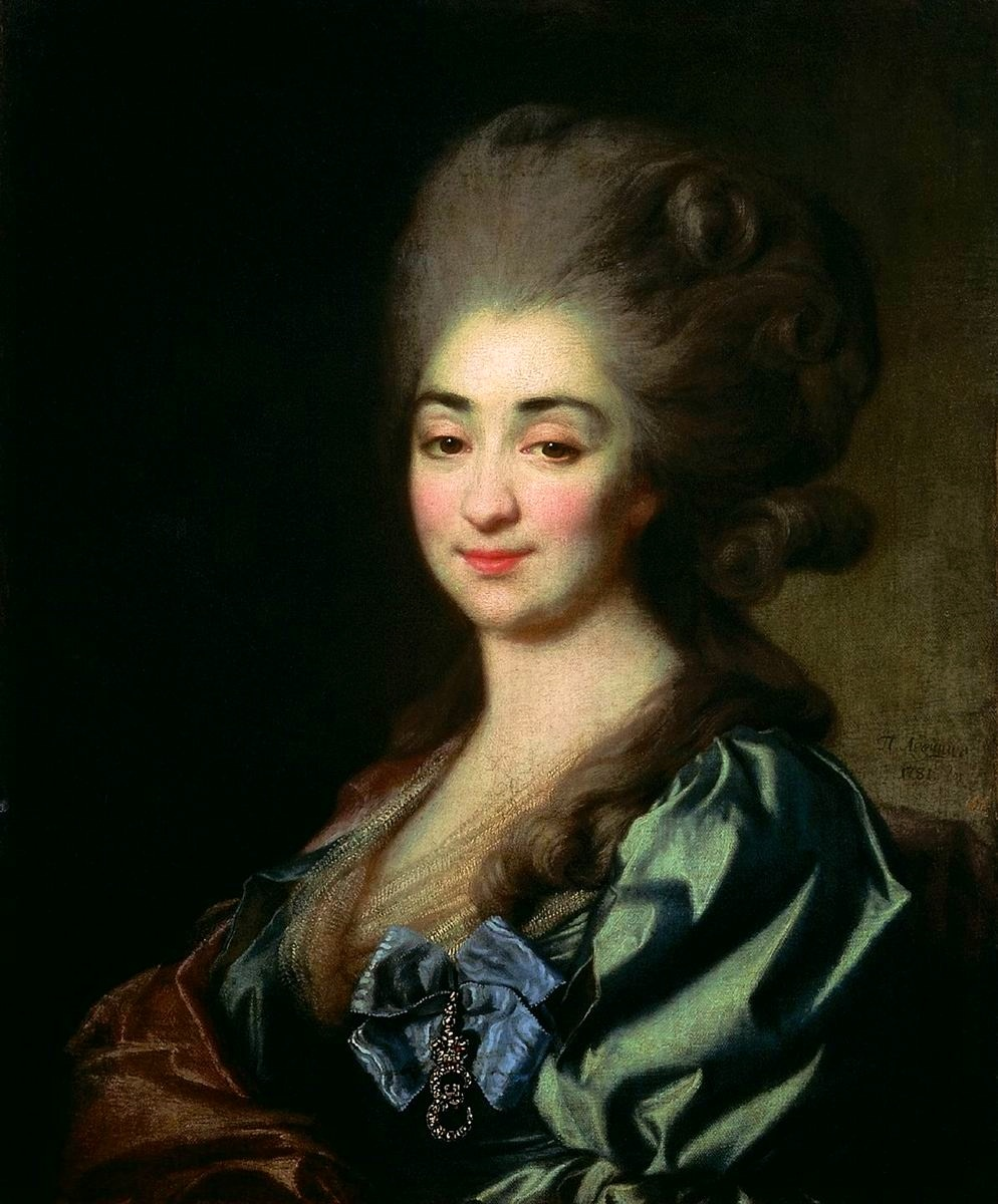 Portrait of Praskovia Repnina (1756/1763-1784), daughter of Nicholas Repnin